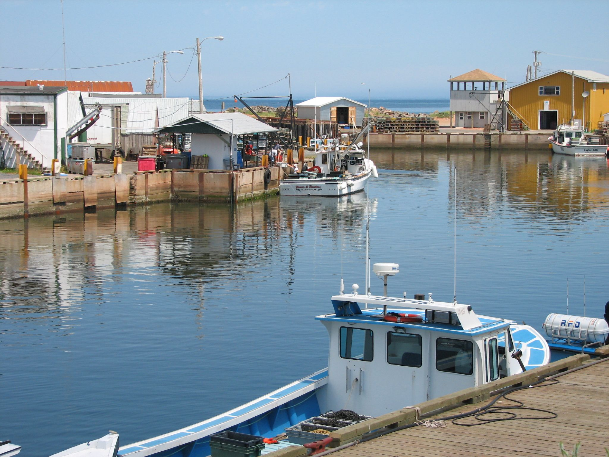 North Lake harbour in eastern Prince Edward Island looking north onto the Gulf of St. Lawrence.